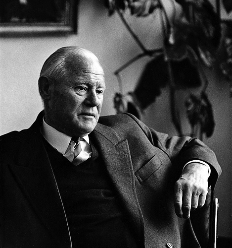 F. Gegauf